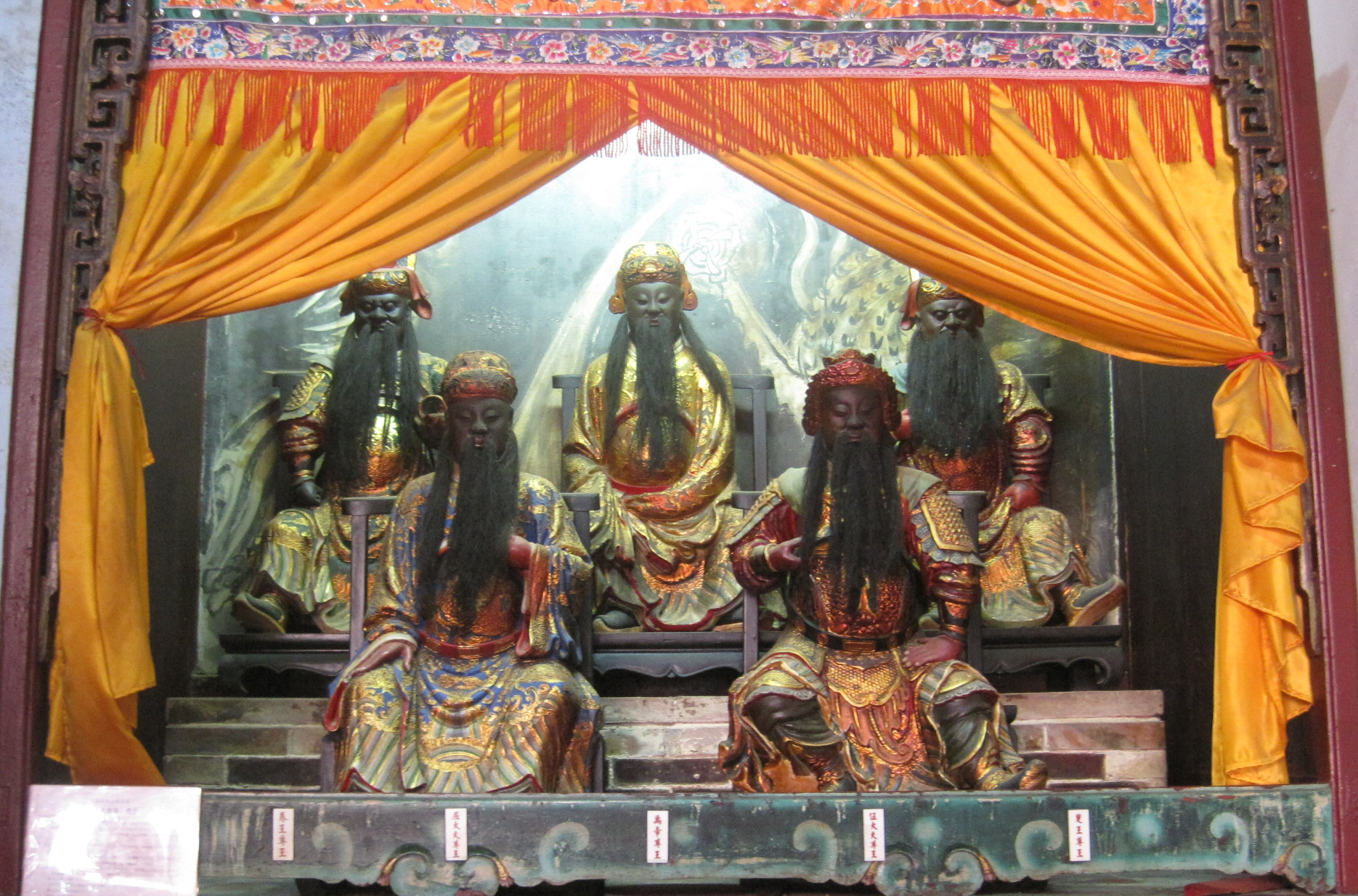 The Five Kings of the Water Immortals, usually reckoned as Yu the Great, Xiang Yu, Ao the son of Han Zhuo, Wu Zixu, and Qu Yuan.